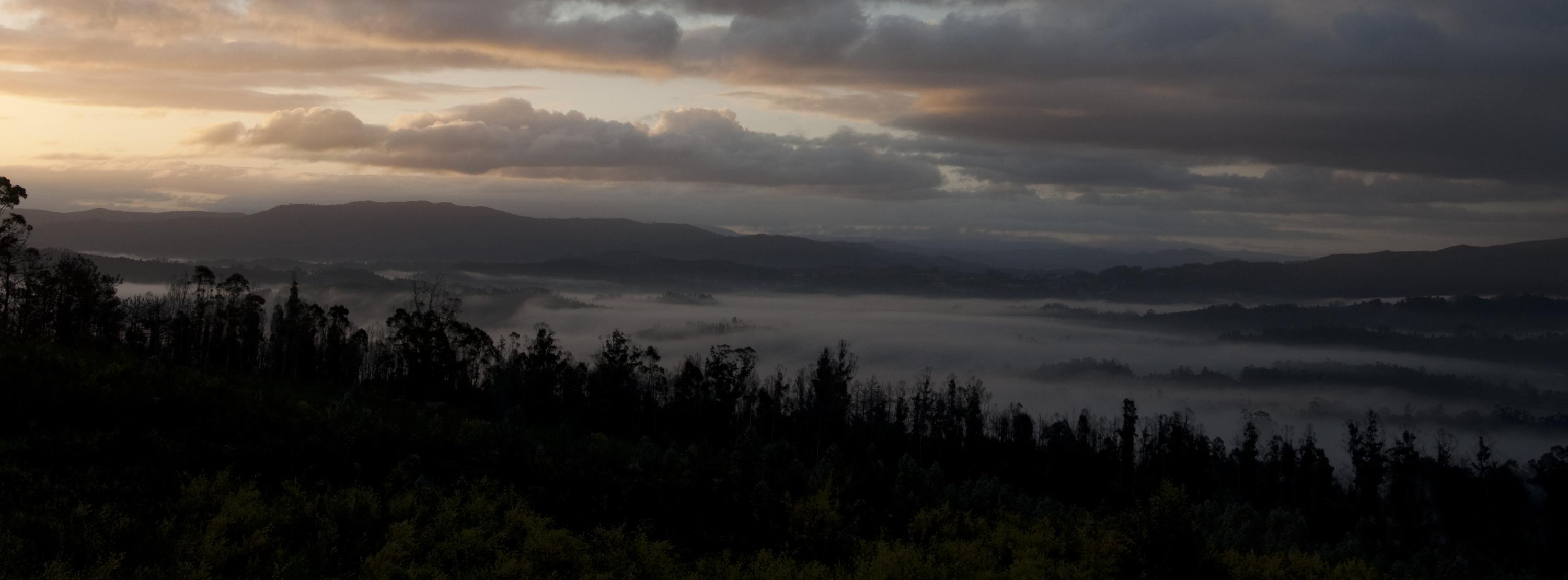 Amencer en Lobeira. Galicia (Spain)